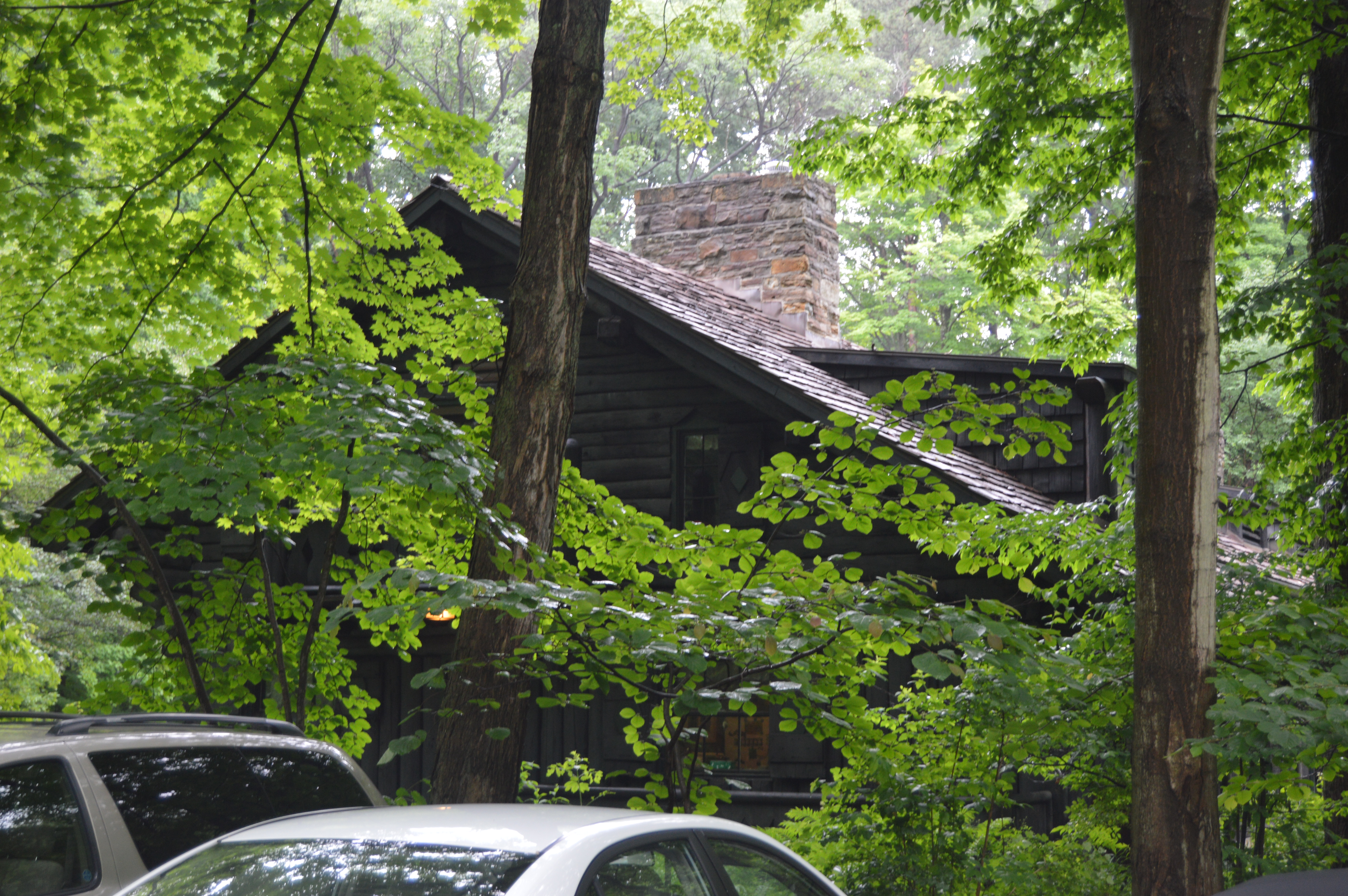 Northern end and western side of Look About Lodge, located off Miles Road in the South Chagrin Reservation of Bentleyville, Ohio, United States. Built in 1938 by the WPA, it is listed on the National Register of Historic Places.Apologies for the poor quality of the picture; a child's birthday party was occurring when I visited the building, and a better view would have intruded on the family's privacy.